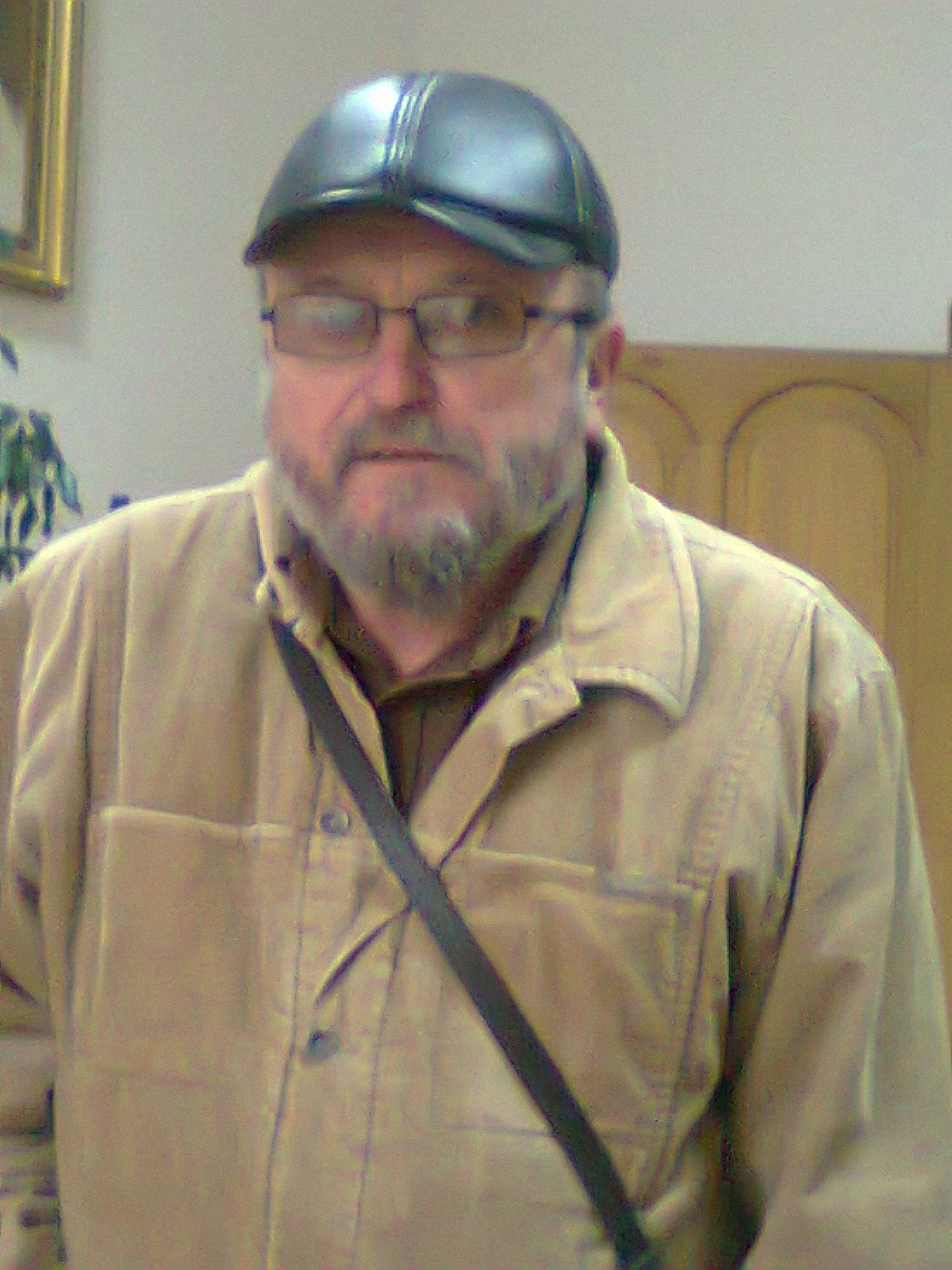 Andyaloshi Alexander - Honored Architect of Ukraine, member of the National Union of Architects of Ukraine.